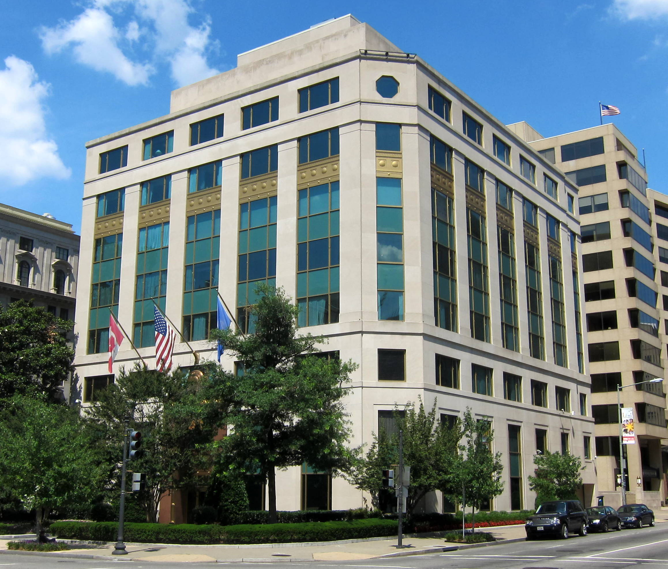 The Moreschi Building, located at 905 16th Street NW in downtown Washington, D.C., serves as headquarters of the Laborers' International Union of North America (LIUNA). The modernist office building was constructed in 1959 and is a contributing property to the Sixteenth Street Historic District.